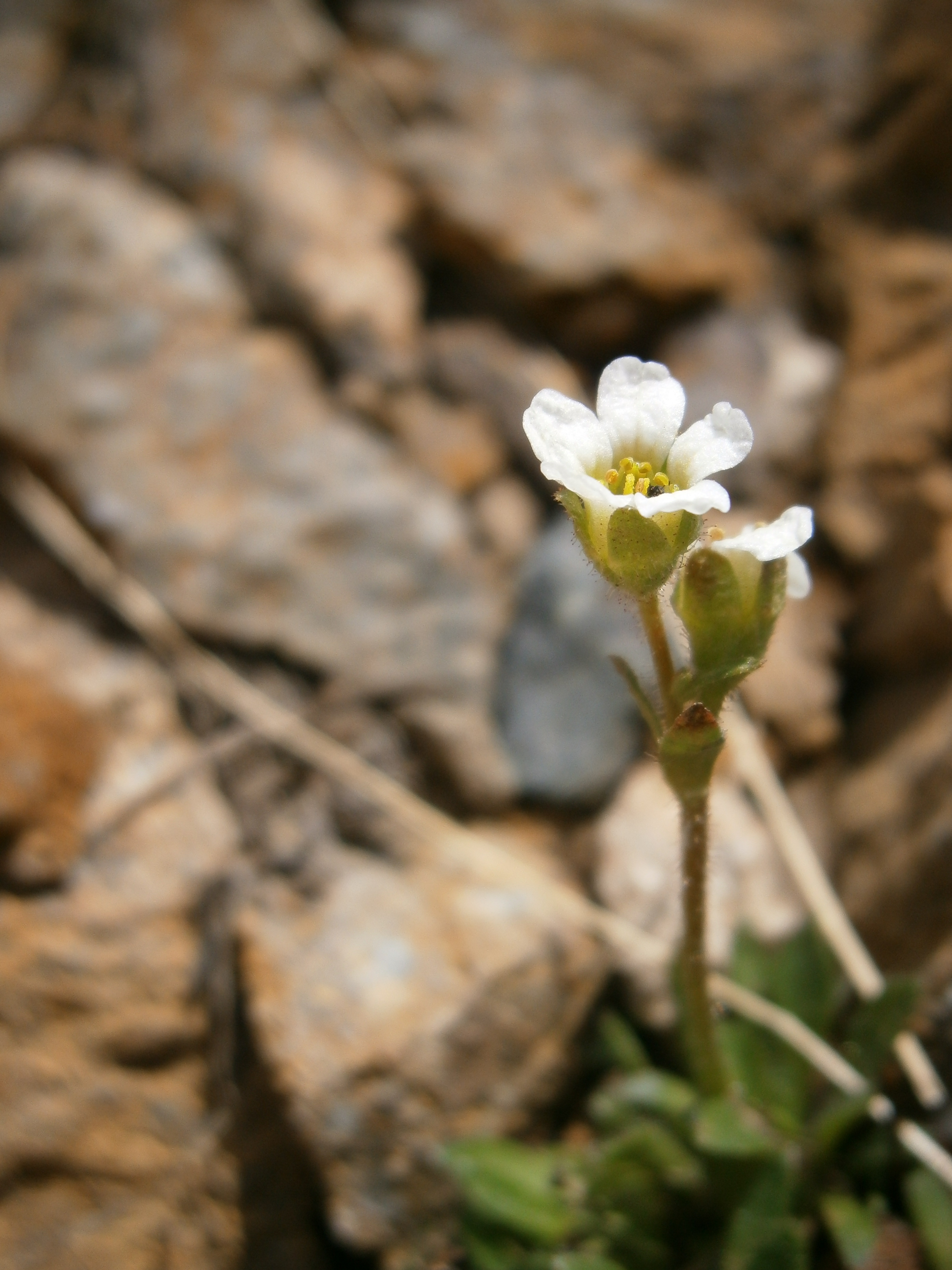 Saxifraga androsacea flowers